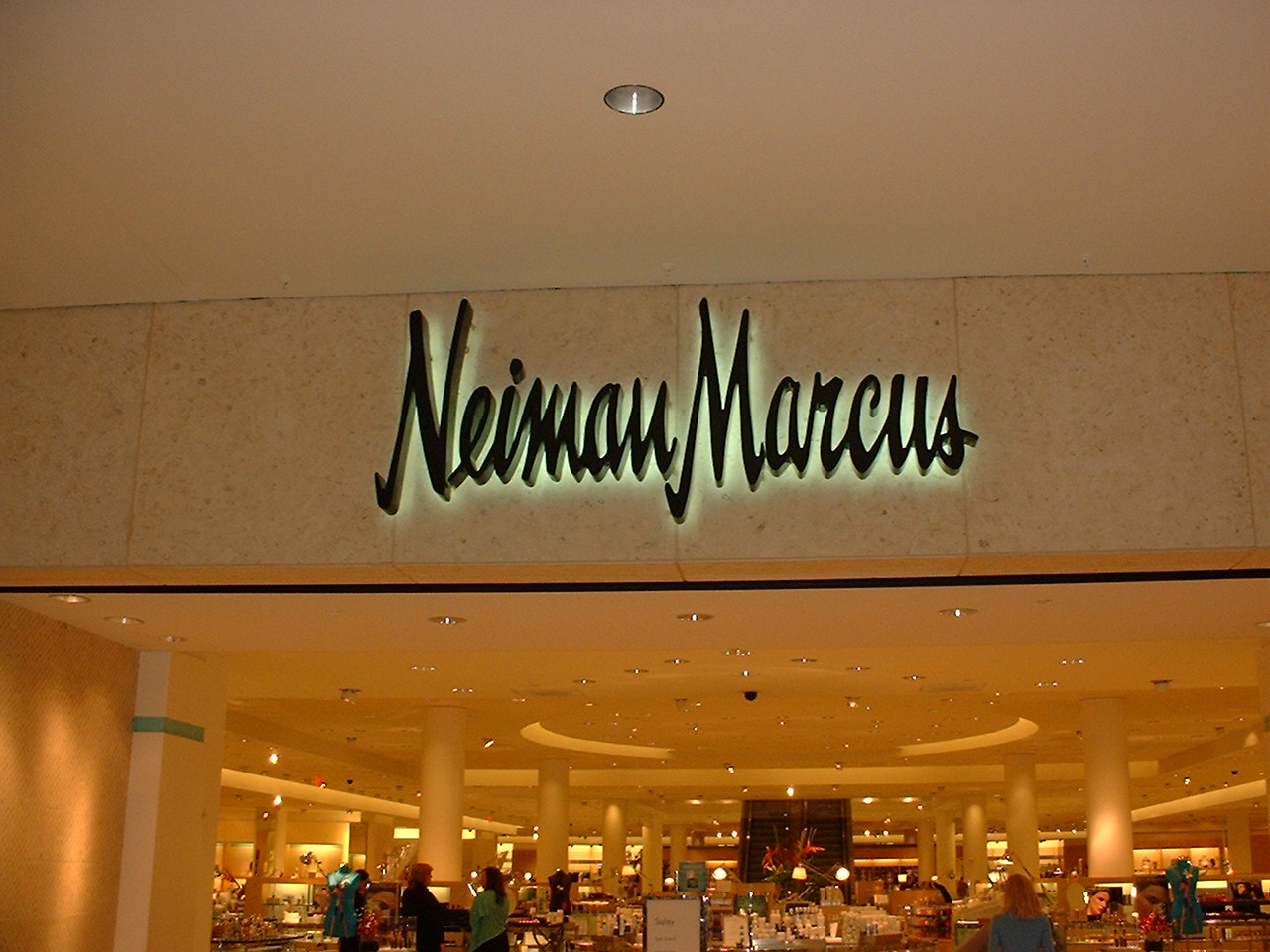 The front of a Neiman Marcus store, picture